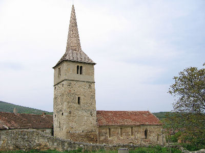 Church in Cricău, Romania